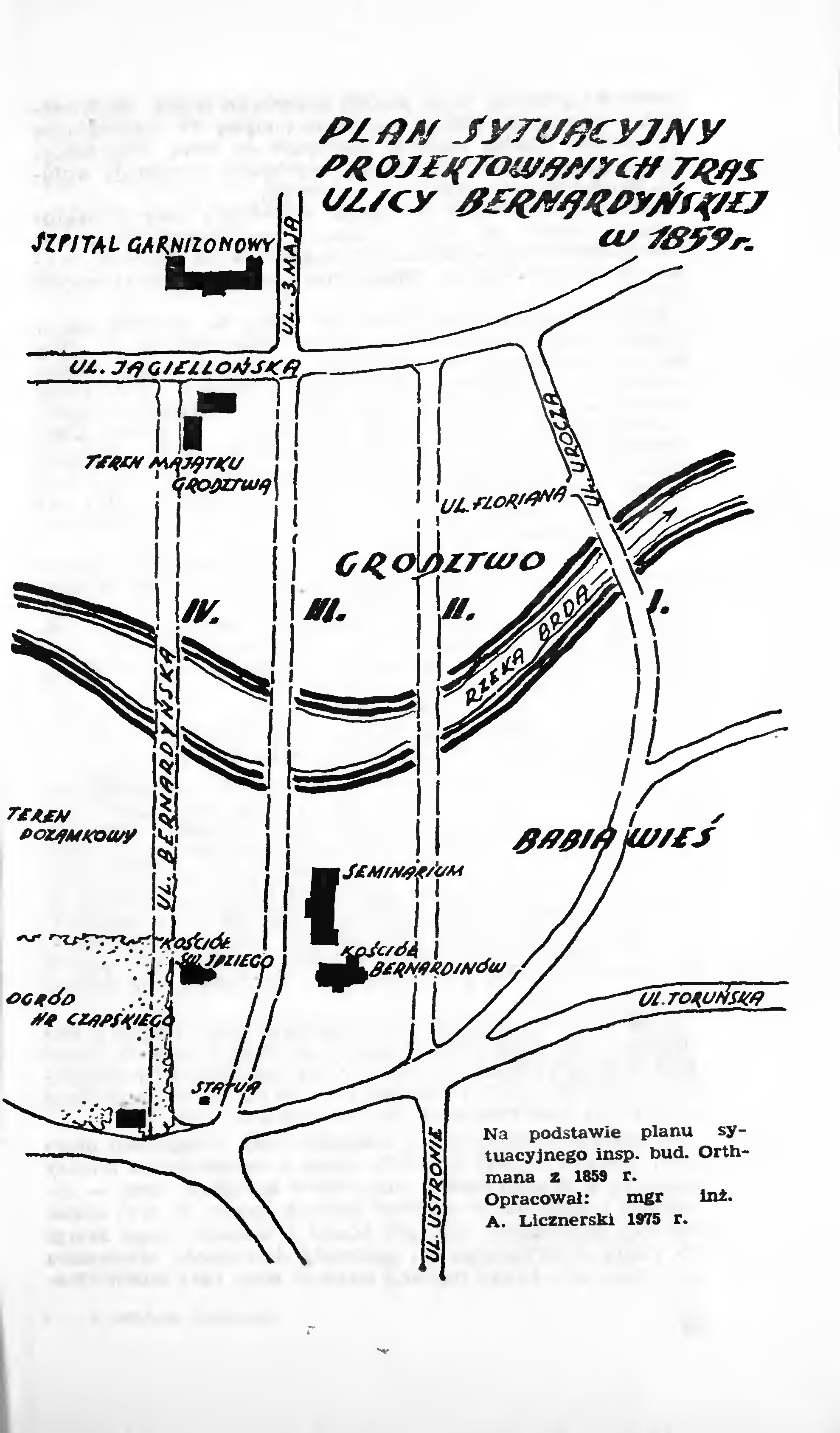 Sketch of street project ca 1859